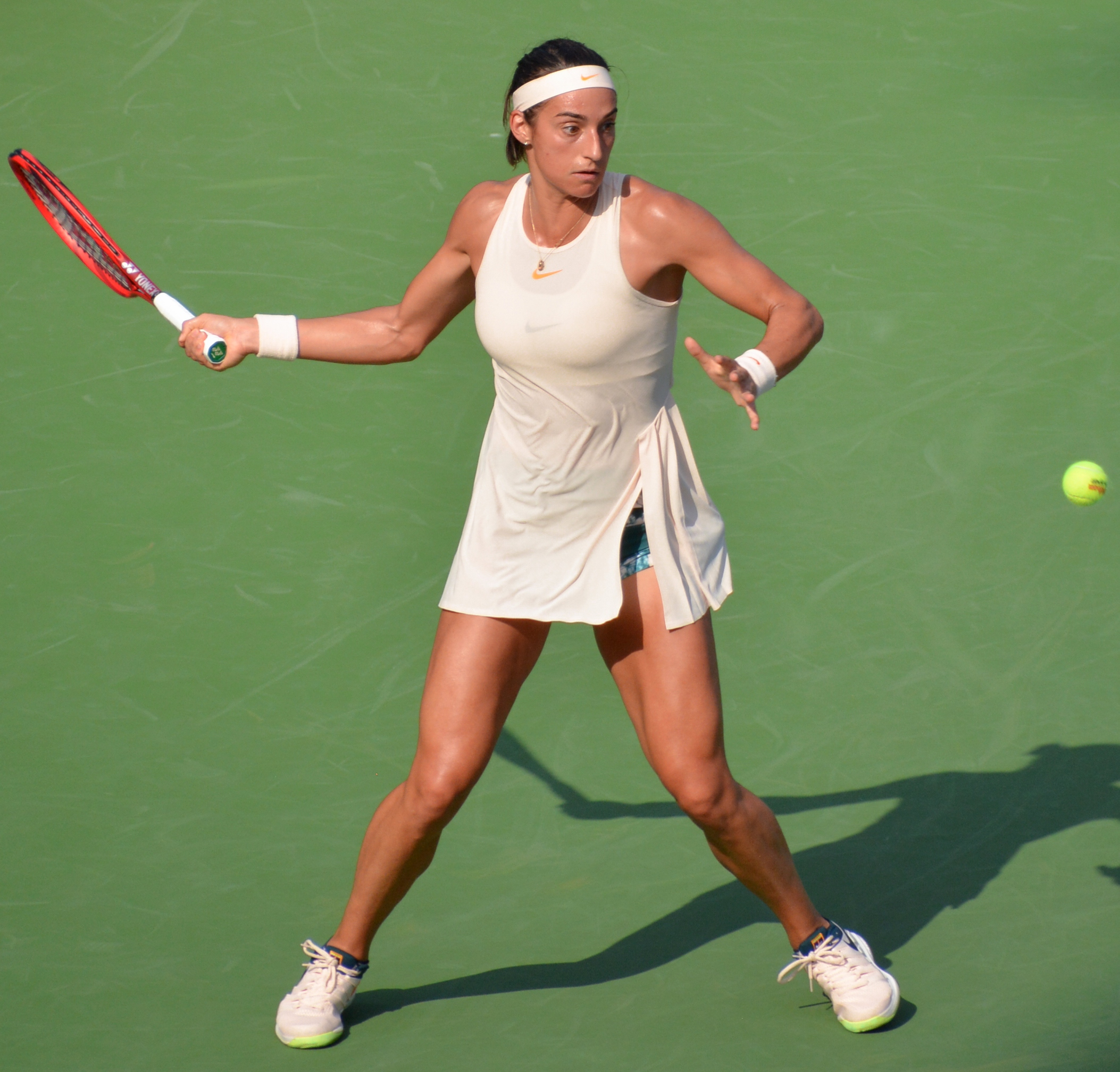 Day 2 of US Open 2018 – Tuesday, 28th August 2018.